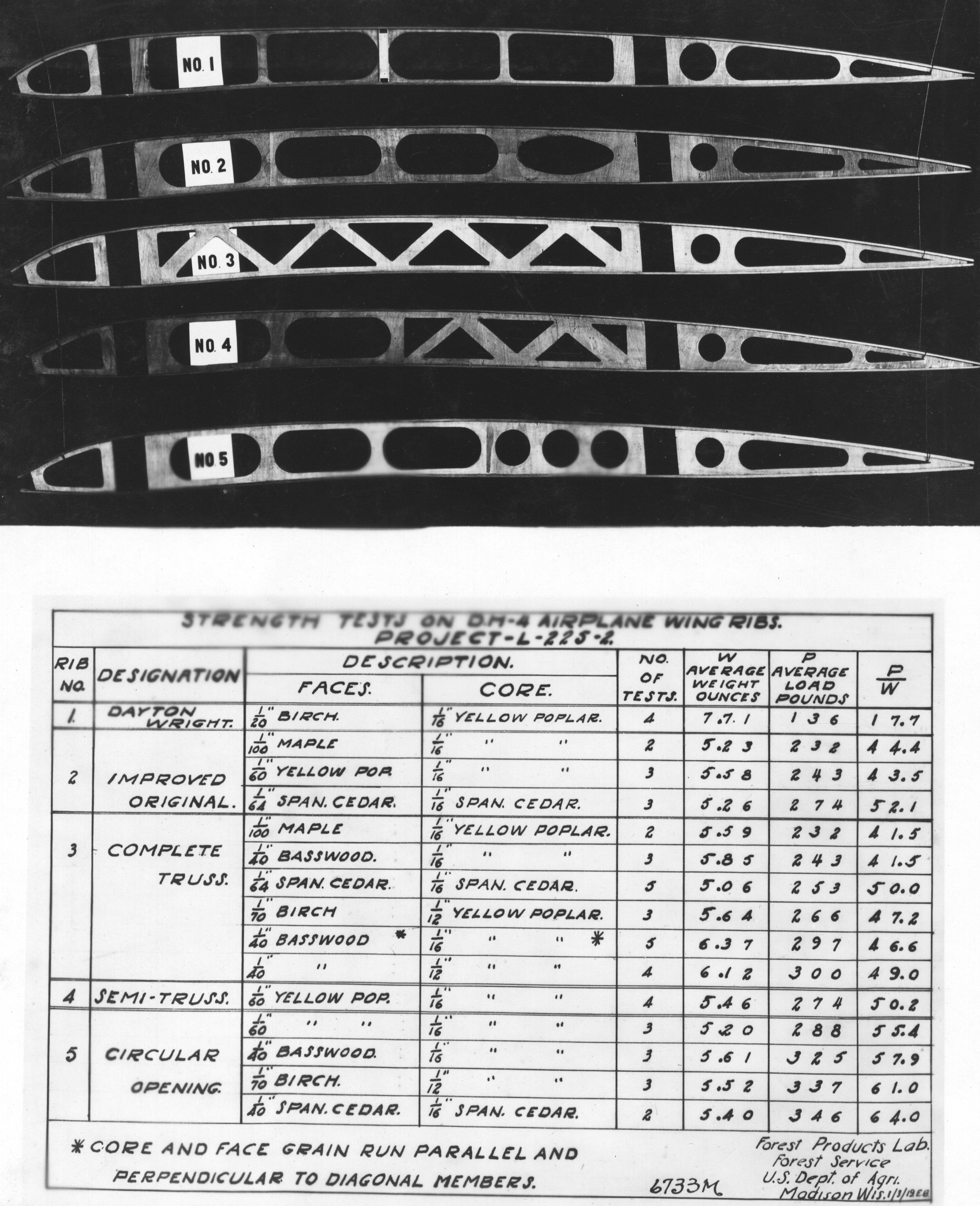 Scope and content: Photographer: U.S. Dept. of Agriculture